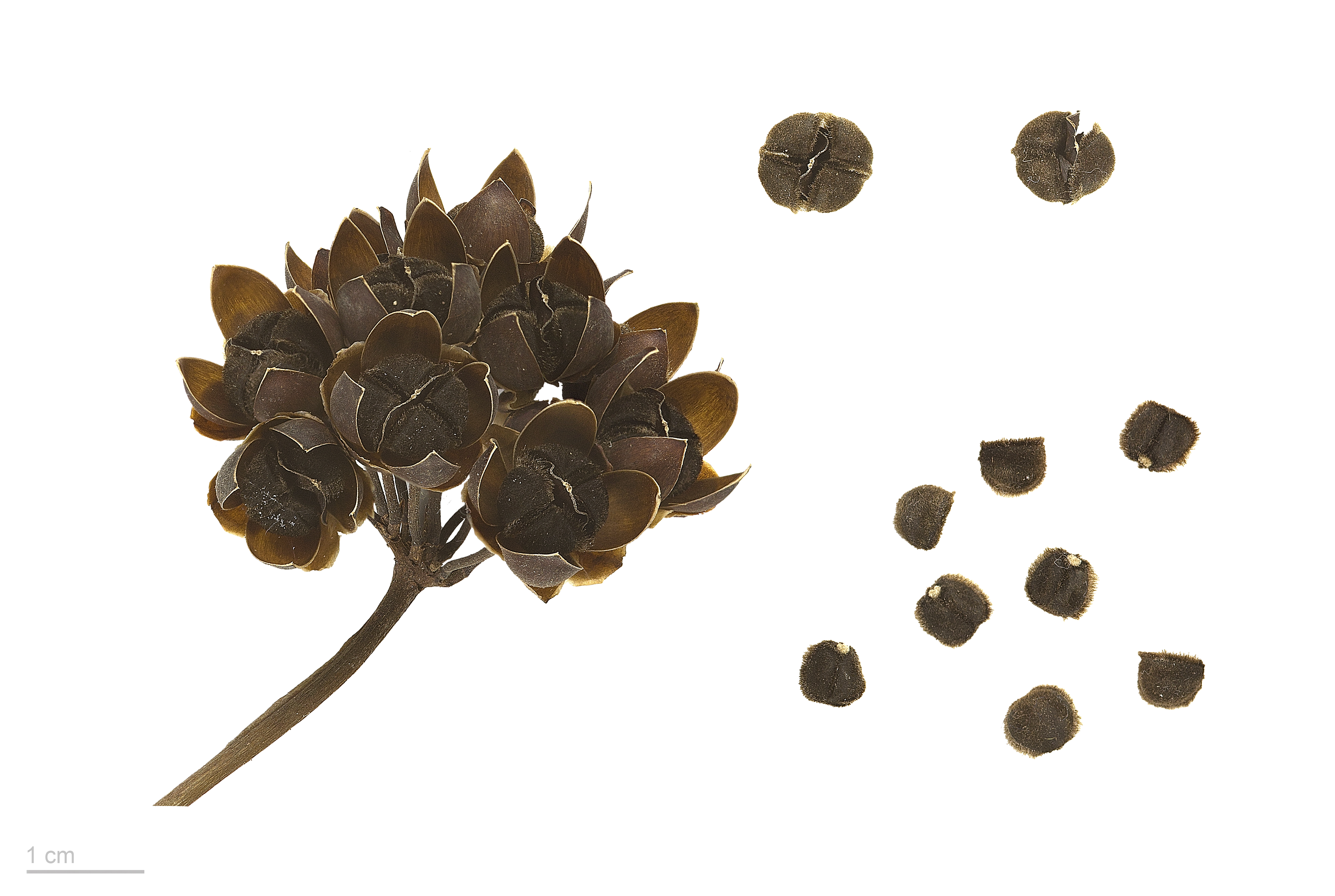 Merremia umbellata ssp umbellata, yellow merremia, seeds